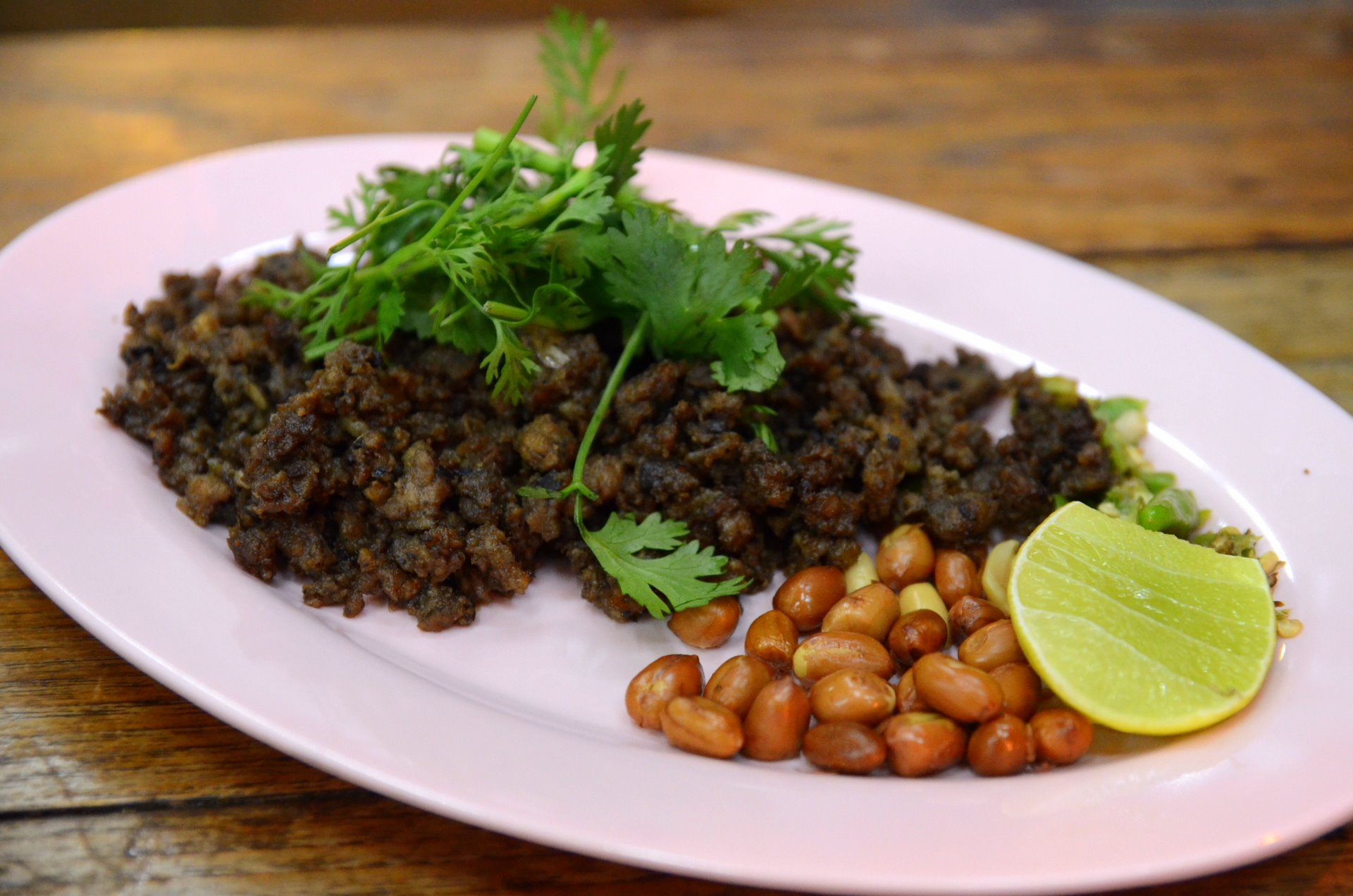 Nam liap mu sap (Thai script: หนำเลี๊ยบหมูสับ) is minced pork stir-fried with garlic and minced nam liap (the fruit of the Canarium album, which resembles a black olive and is therefore also known as "Chinese olive"). Nam liap taste somewhat like dried prunes but then less sweet. This dish is often eaten together with khao tom kui (plain rice congee).